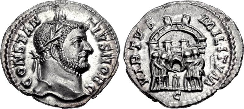 Constantius I. As Caesar, AD 293-305. AR Argenteus (19mm, 3.29 g, 12h). Treveri (Trier) mint. 3rd emission, AD 294. Laureate head right VIRTVS MILITVM, four tetrarchs sacrificing over tripod before city enclosure with six turrets; C. RIC VI 110a; Schulten Em. 3 (type not illustrated); Jeločnik 95, pl. XII, 9; RSC 312b.